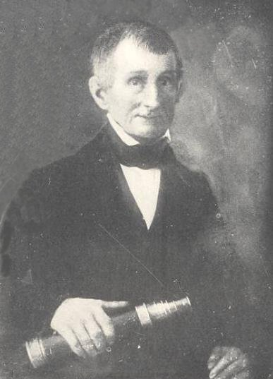 William Hamlin 1772-1869